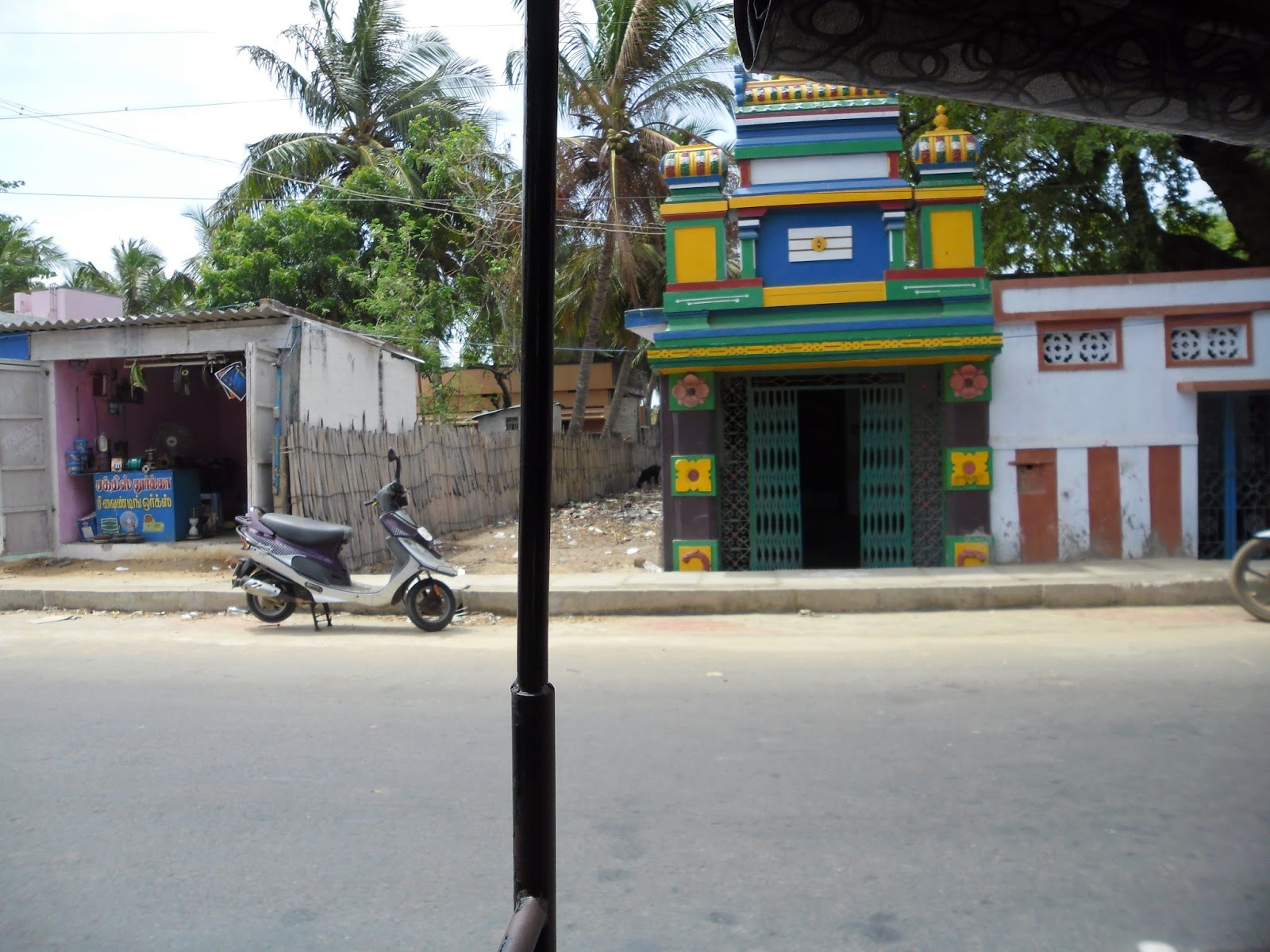 Sri Muneeswarar Temple